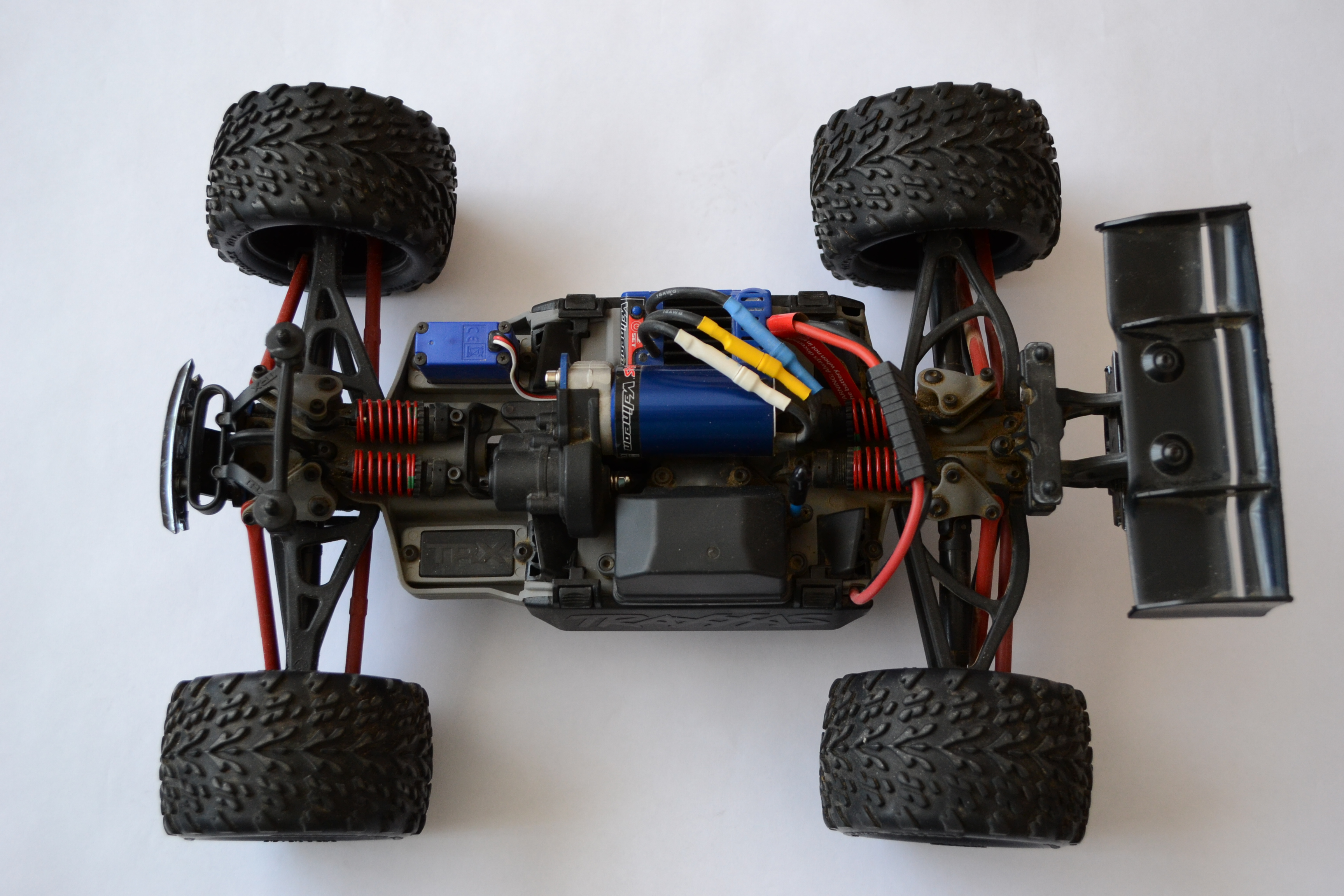 Electric RC car Traxxas e-revo VXL 1/16